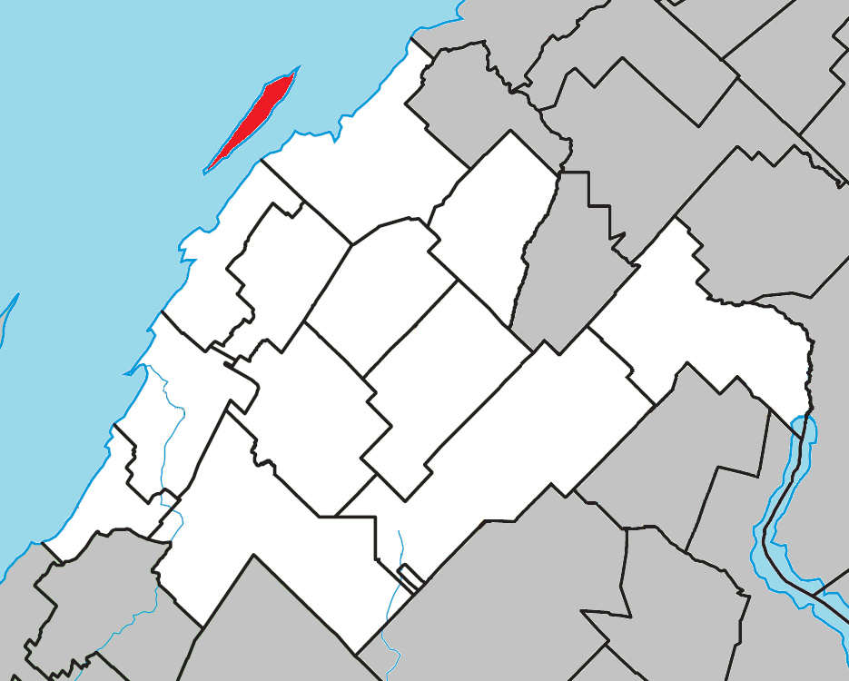 Location of Notre-Dame-des-Sept-Douleurs, Quebec within Rivière-du-Loup Regional County Municipality.